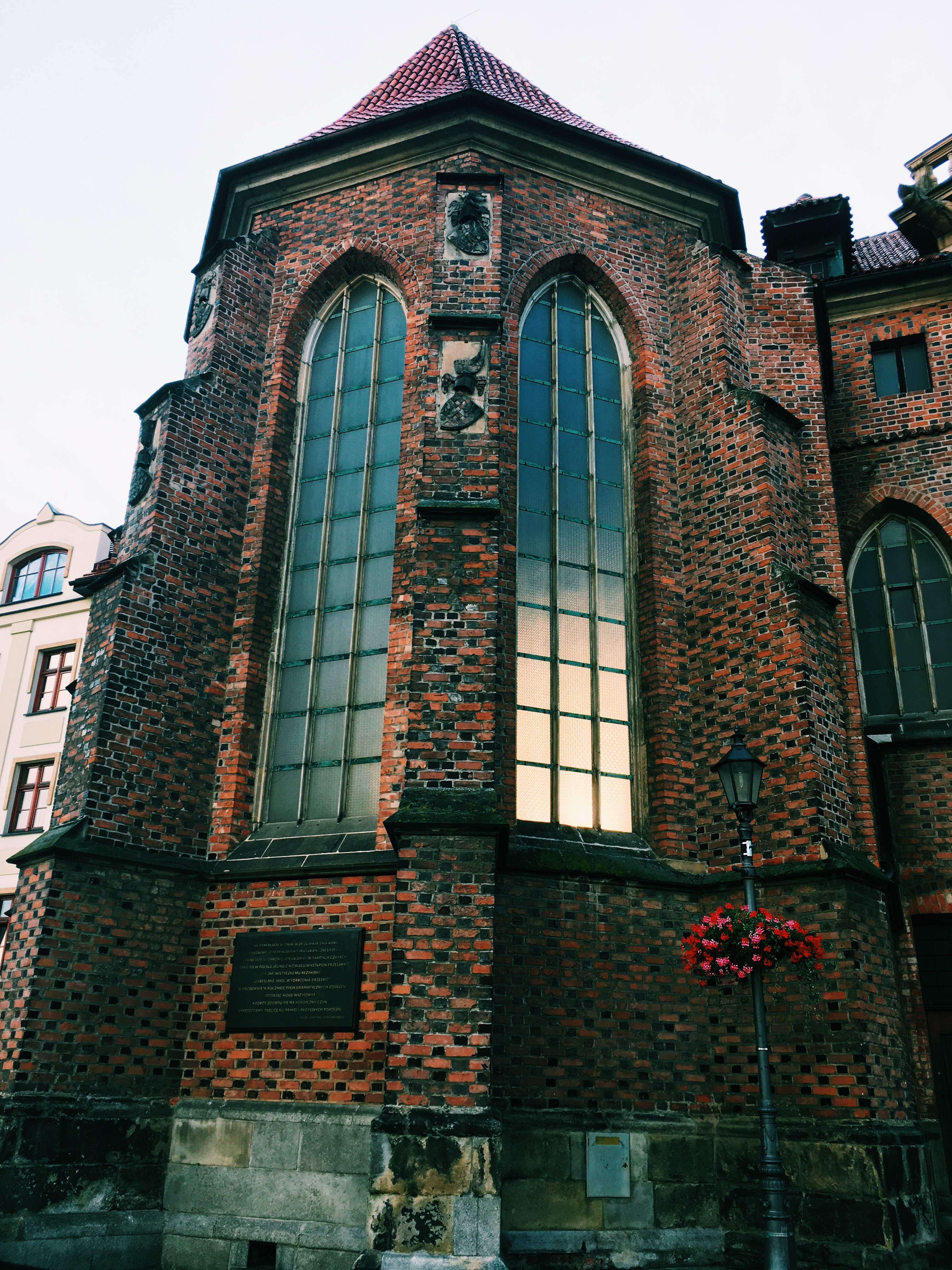 St. Jadwiga's Church in Brzeg, view from Castle Square (Plac Zamkowy).